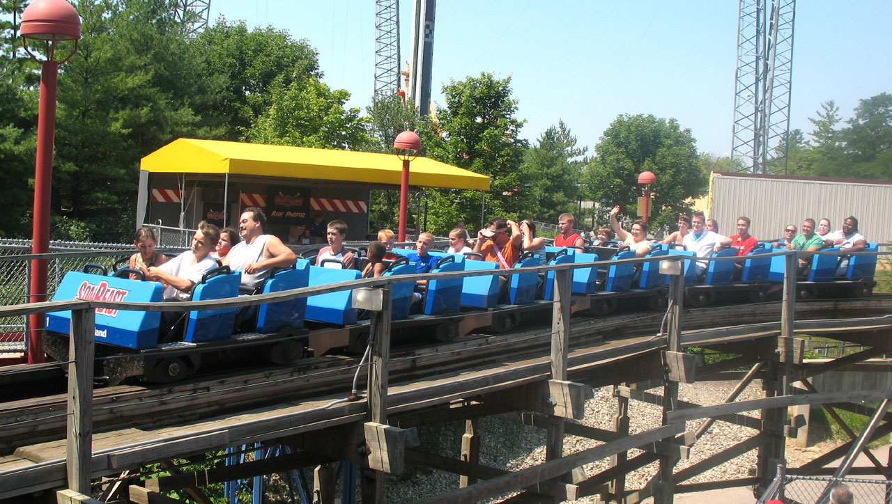 Gerstlauer train running on Son of Beast roller coaster at Kings Island